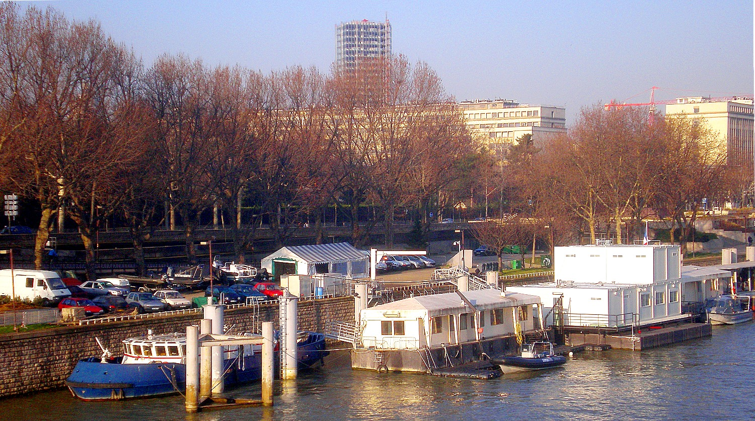 Port Saint-Bernard - Paris